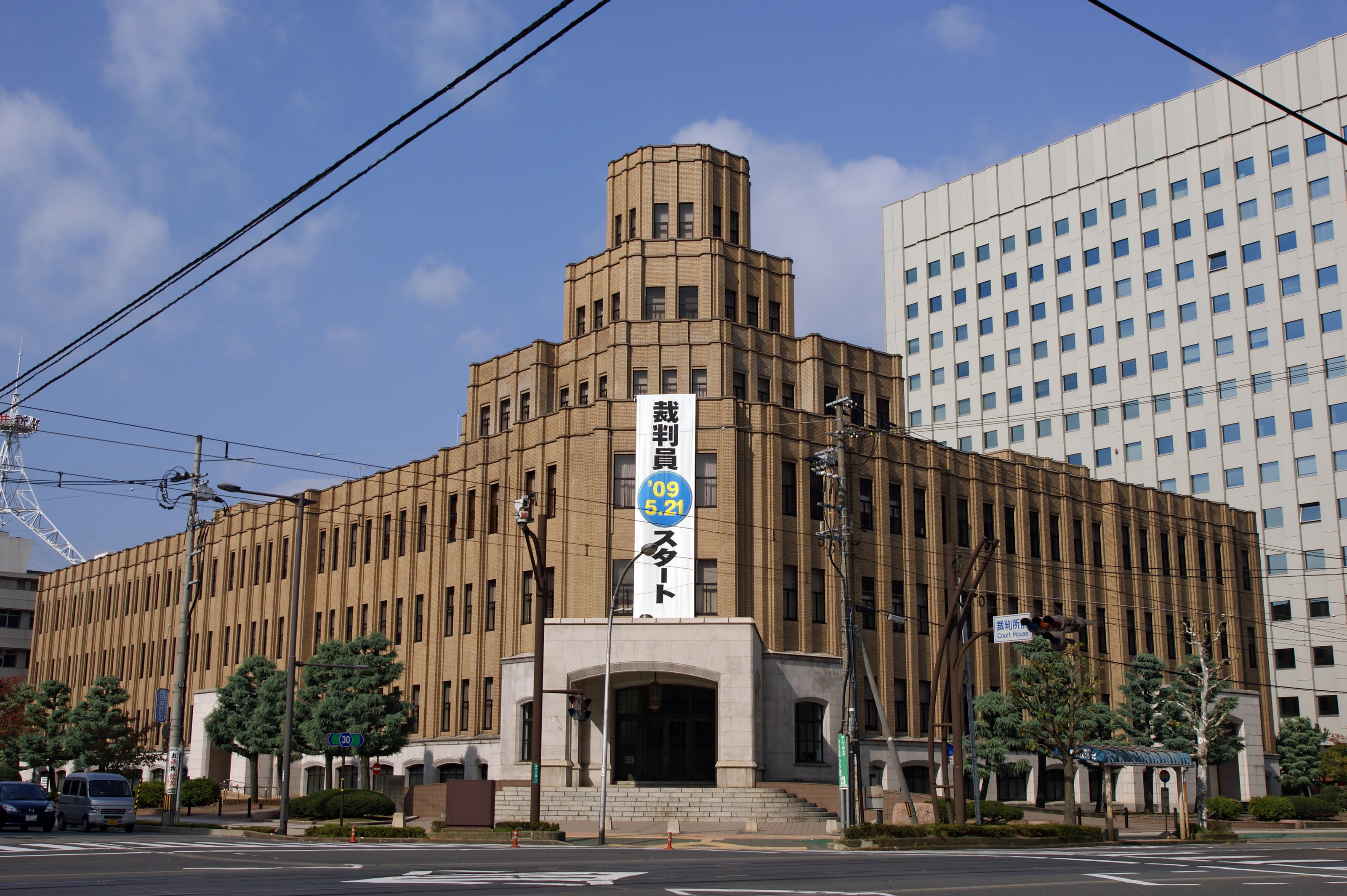 Fukui District Court, Fukui, Fukui prefecture, Japan